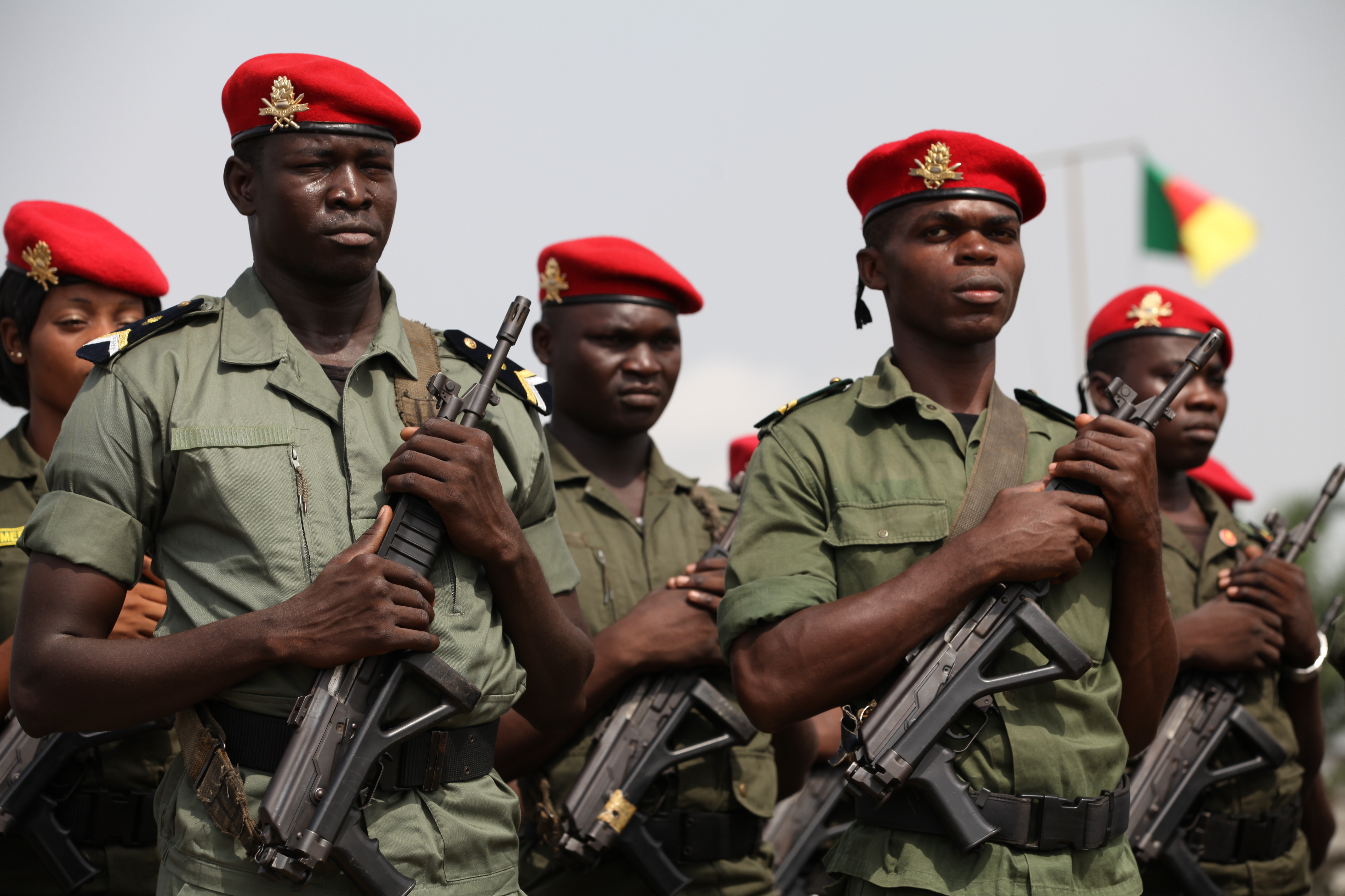 A Gendarmerie police officers from the Cameroonian Defense Force stand in formation for an opening ceremony for Central Accord 2013 on an Air Base in Douala, Littoral Region, Cameroon, Feb. 19, 2013. Central Accord is a Joint Task Force along with partner nations that are conducting medical and logistical training to strengthen the relationship with Cameroon. (U.S. Army Photo by Sgt. Austin Berner/Released)